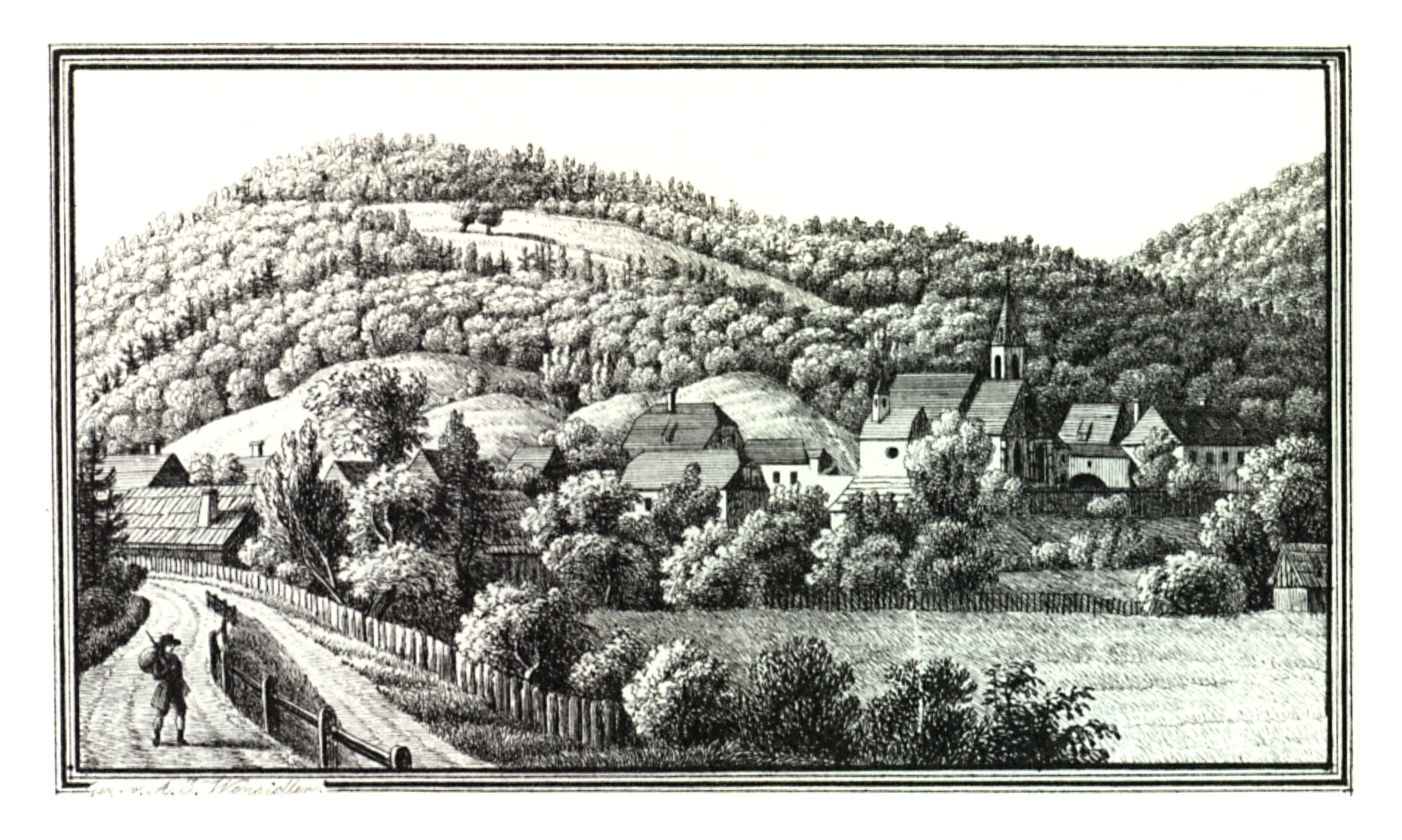 J. F. Kaiser - lithographirte Ansichten der Steyermärkischen Städte, Märkte und Schlösser Graz, 1825 Joseph Franz Kaiser (1786–1859) Alternative names J. F. KaiserDescriptionAustrian printer and editorDate of birth/death 11 March 1786 19 September 1859Location of birth/death Graz (Styria) GrazAuthority control : Q1499963 VIAF: 30629353 ISNI: 0000 0000 3083 0153 LCCN: n87141671 GND: 129880159 NLP: A24960305 WorldCat creator QS:P170,Q1499963 Scanprojekt Community Projektbudget 2012 This scan or this PDF-file was created within the GLAM-project Bookscanning, supported by Wikimedia Germany and Wikimedia Austria as a part of the community-project to capture books, documents and pictures which are not eligible to copyright or for which the copyright has expired. This document describes or depicts an object which is located in Austria today. Send requests for uncompressed scans to Hubertl. This work is in the public domain in its country of origin and other countries and areas where the copyright term is the author's life plus 100 years or less. You must also include a United States public domain tag to indicate why this work is in the public domain in the United States. This file has been identified as being free of known restrictions under copyright law, including all related and neighboring rights.